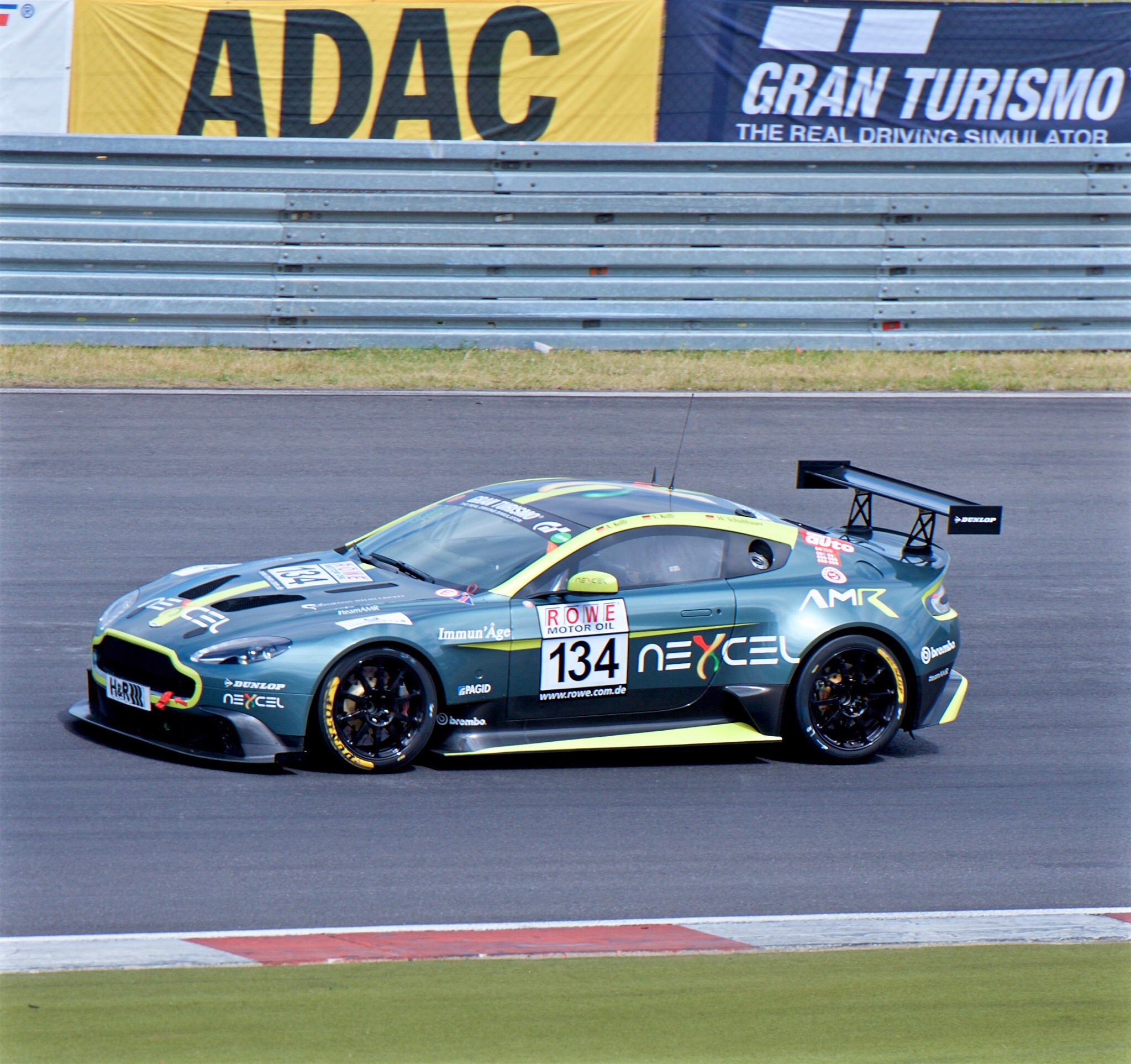 Aston Martin GT8/Werksrennwagen at VLN-Serie 3 at 24.06.2017 at the Nürburgring, Driver Alexander Kolb (Böööös Racing Team)